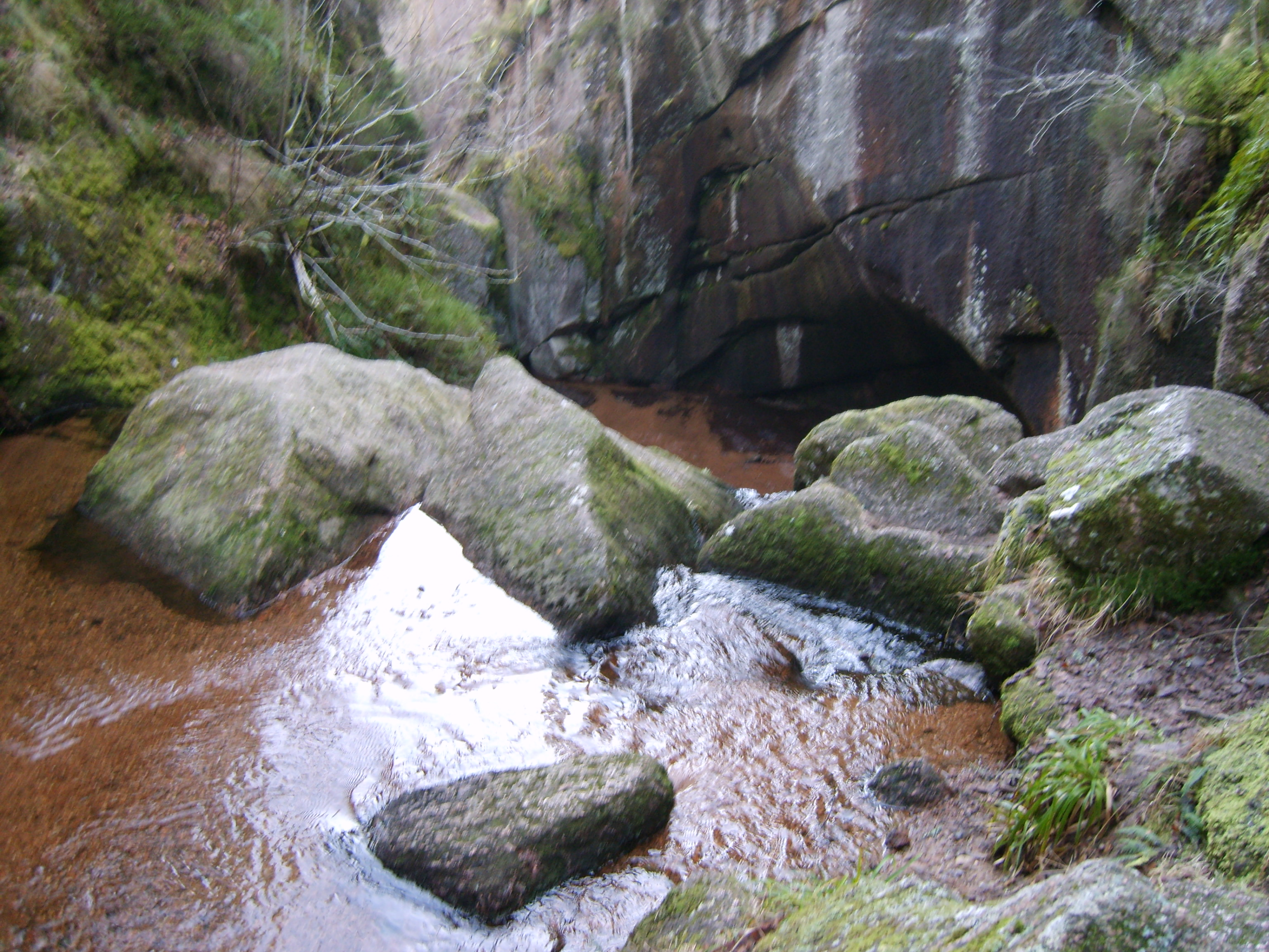 View of the pothole 'Vat' from above the waterfall. Shows some extent of the bowl like nature of the Vat.